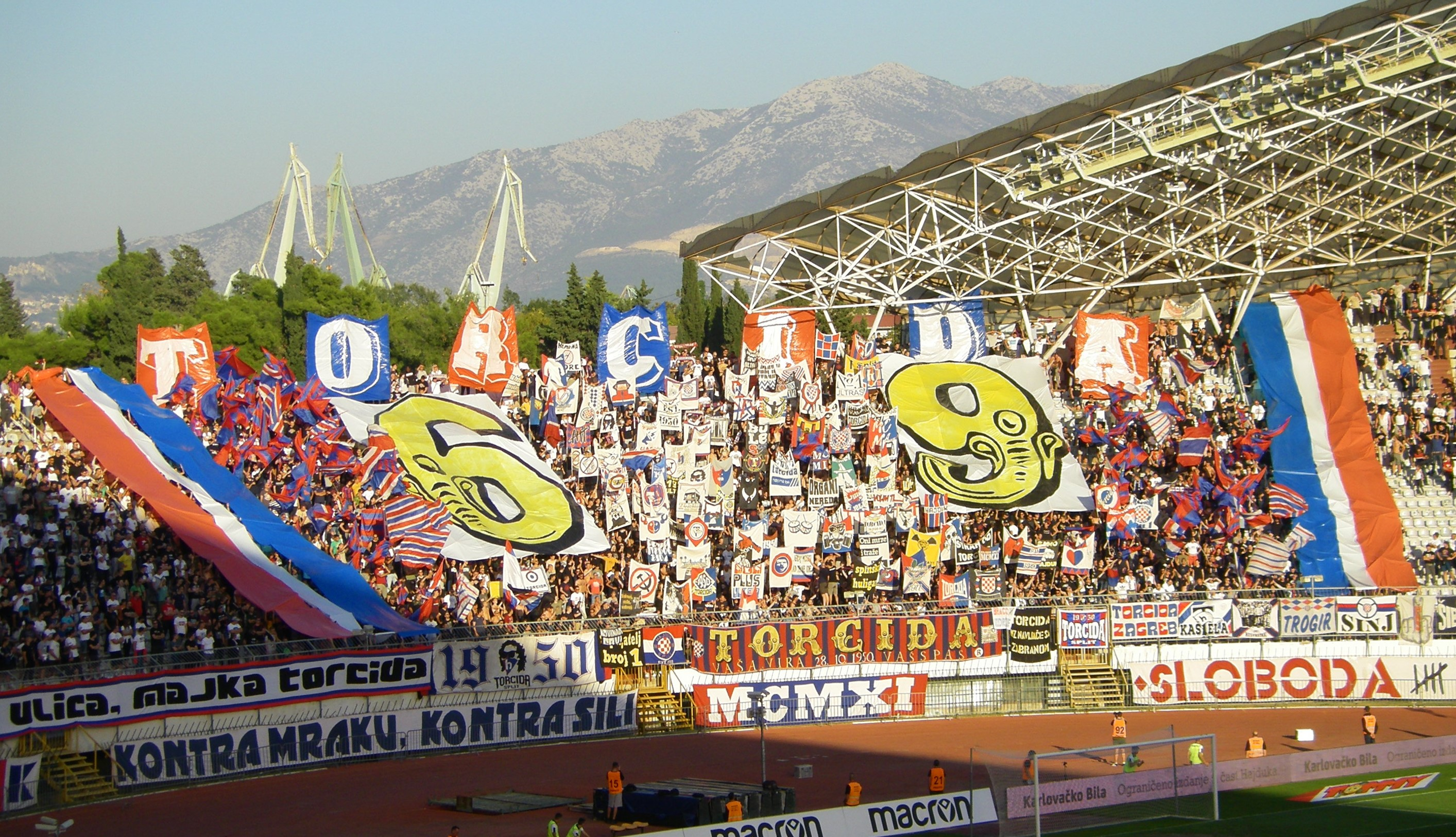 During a league match on October 26, 2019 versus Slaven Belupo, Torcida Hajduk celebrates their 69. anniversary.